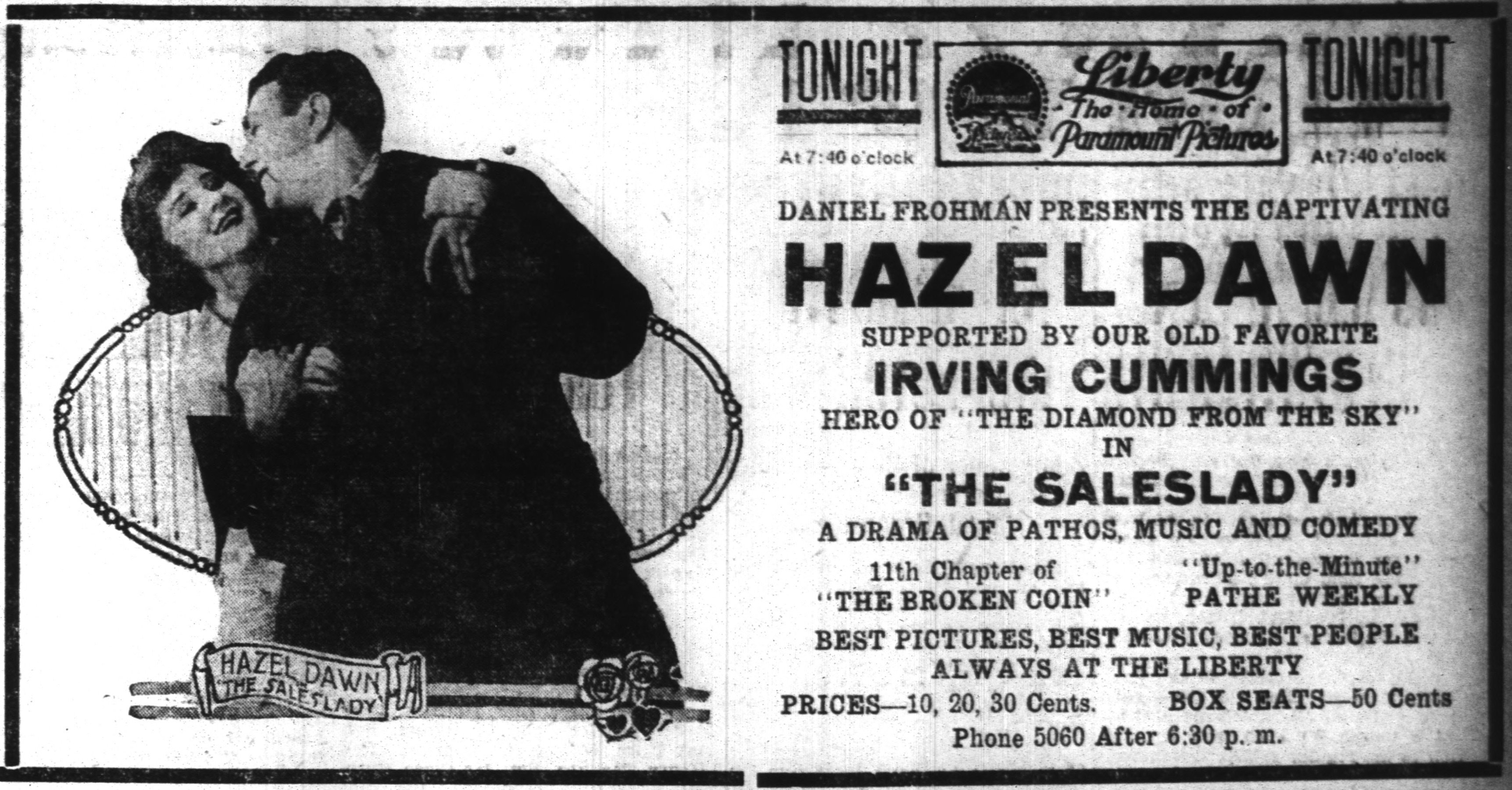 The Saleslady